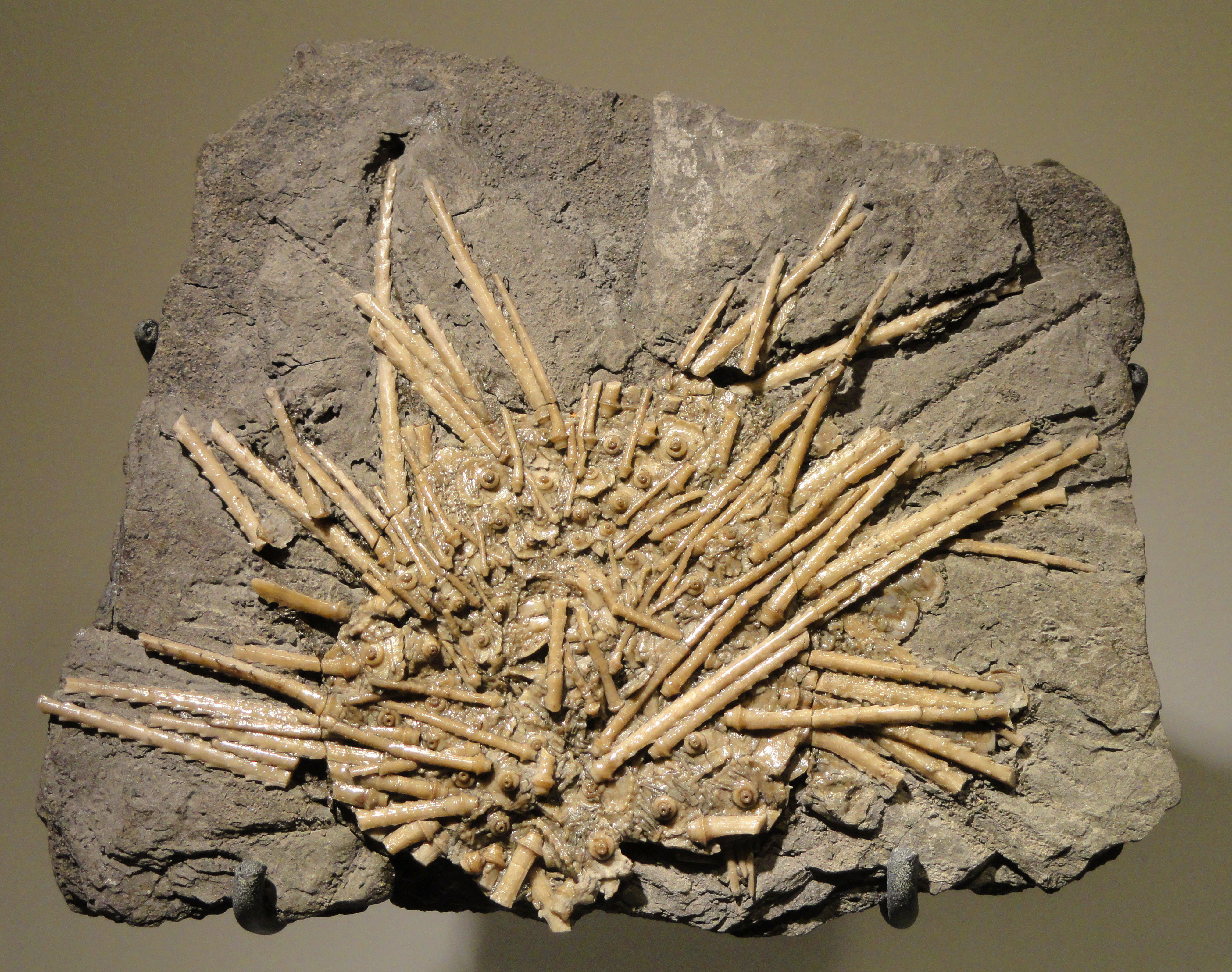 Exhibit in the Houston Museum of Natural Science, Houston, Texas, USA.